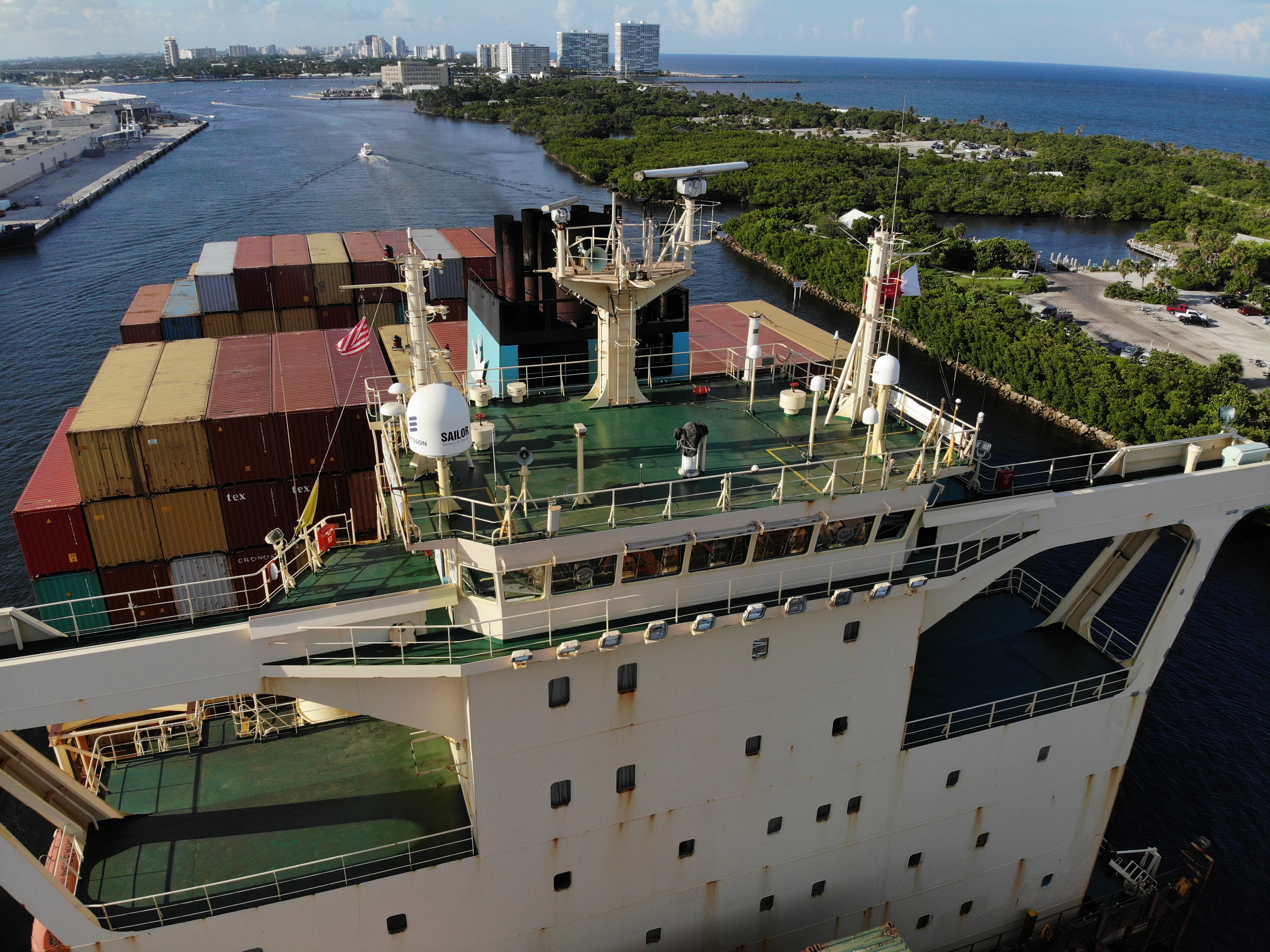 The bridge of the Maersk Sealand New York container ship departing from Port Everglades.